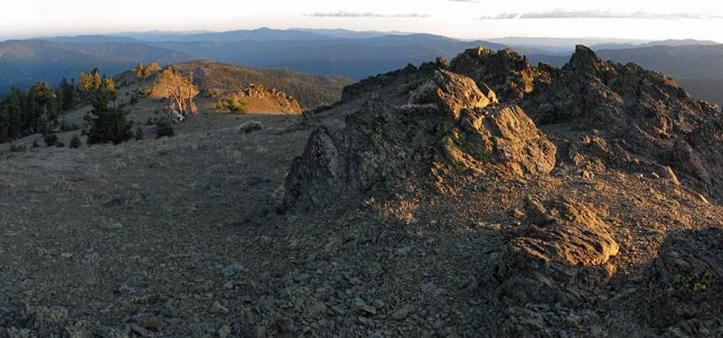 Sunrise from the 8092 foot Mount Linn in the Yolla Bolly Wilderness